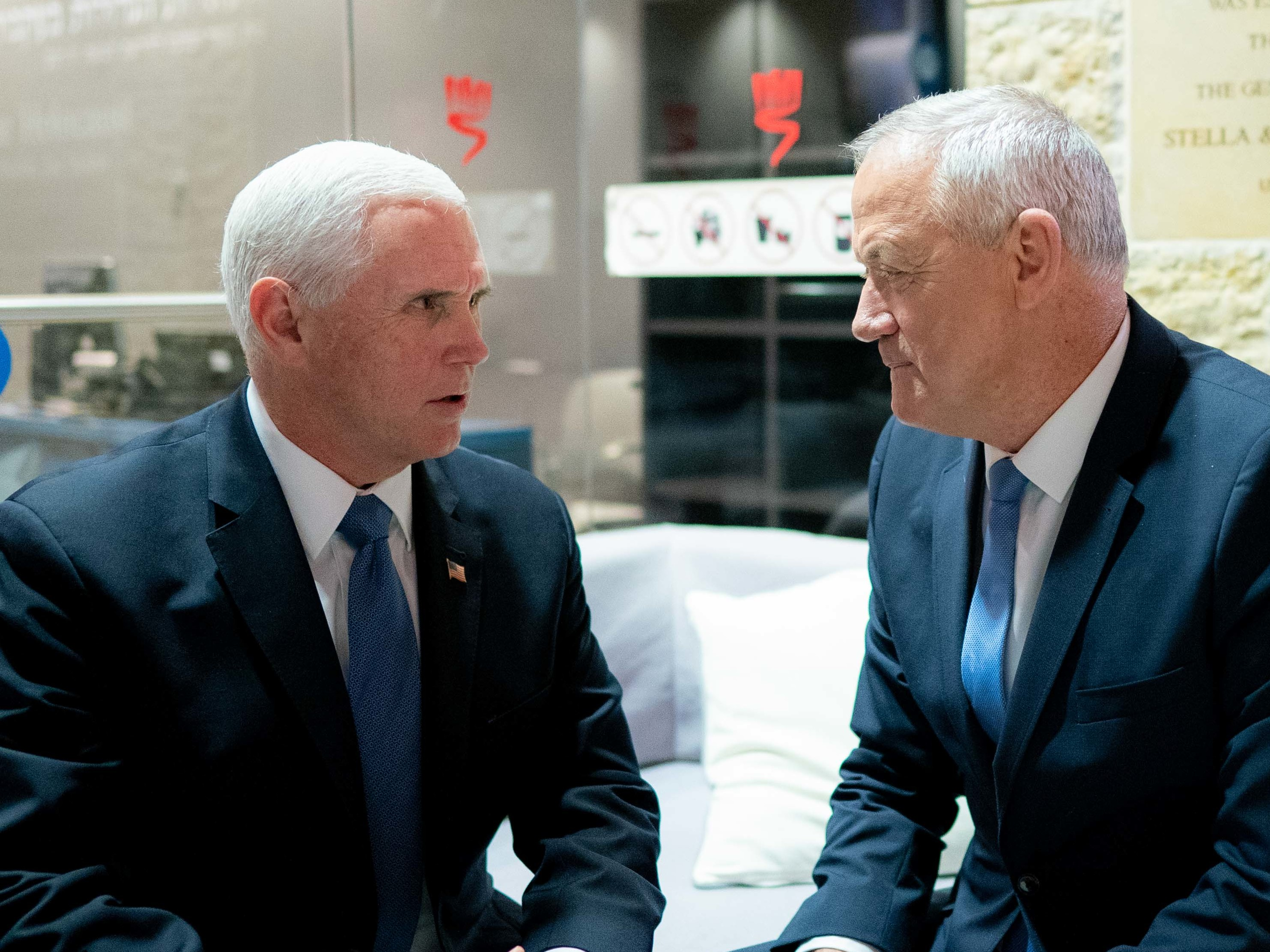 Vice President Mike Pence and Mrs. Karen Pence arrive at the Yad Vashem in Jerusalem Thursday, Jan. 23, 2020, to participate in the Fifth World Holocaust Forum for the 75th Anniversary of the Liberation of Auschwitz-Birkenau in Jerusalem, Israel. (Official White House photo by D. Myles Cullen)